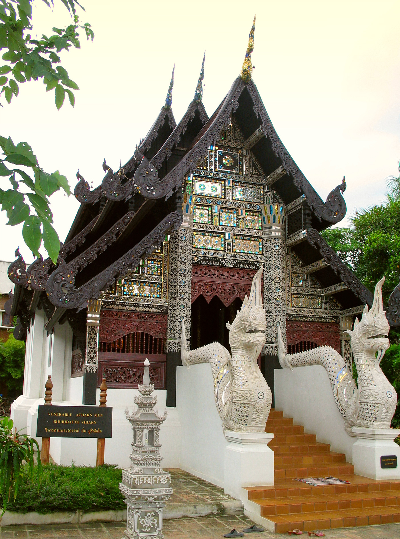 Viharn for Ajahn Mun Bhuridatta, Wat Chedi Luang, Chiang Mai, Thailand